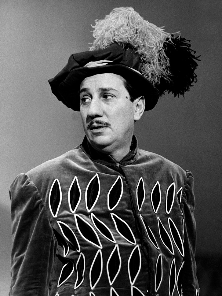 The Italian conductor and composer Gorni Kramer hosting the TV show 'Alta Fedeltà'. January 1962